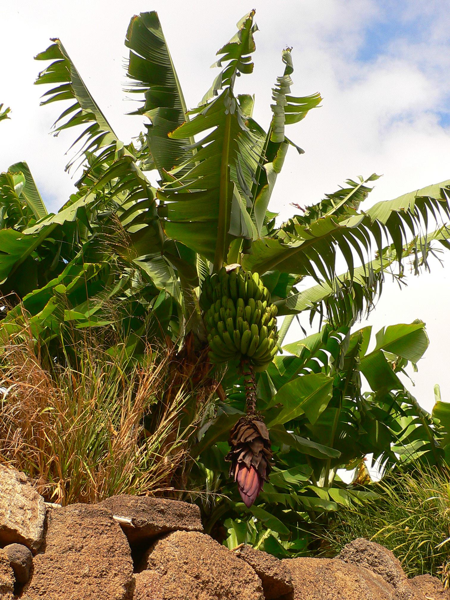 Banana tree in the town of Galdar